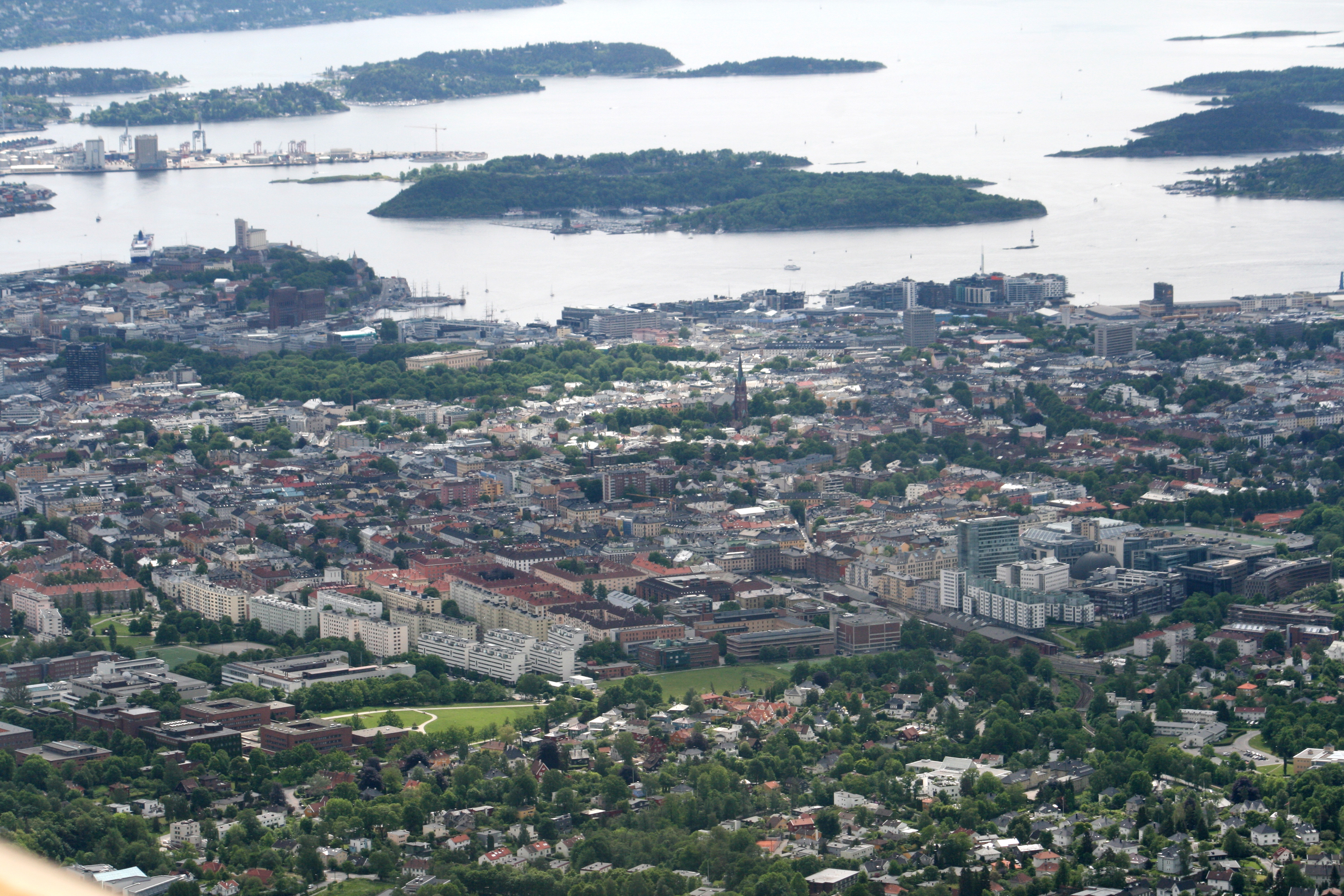 Aerial photograph from June 14th, 2015.